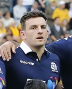 2017.06.17.15.04.41-Flower Of Scotland anthem-0001 The 2017 mid-year rugby union international, 17 June 2017, Australia vs Scotland at Allianz Stadium, Sydney